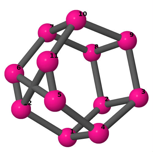 One of 85 simple cubic graphs with 12 vertices.